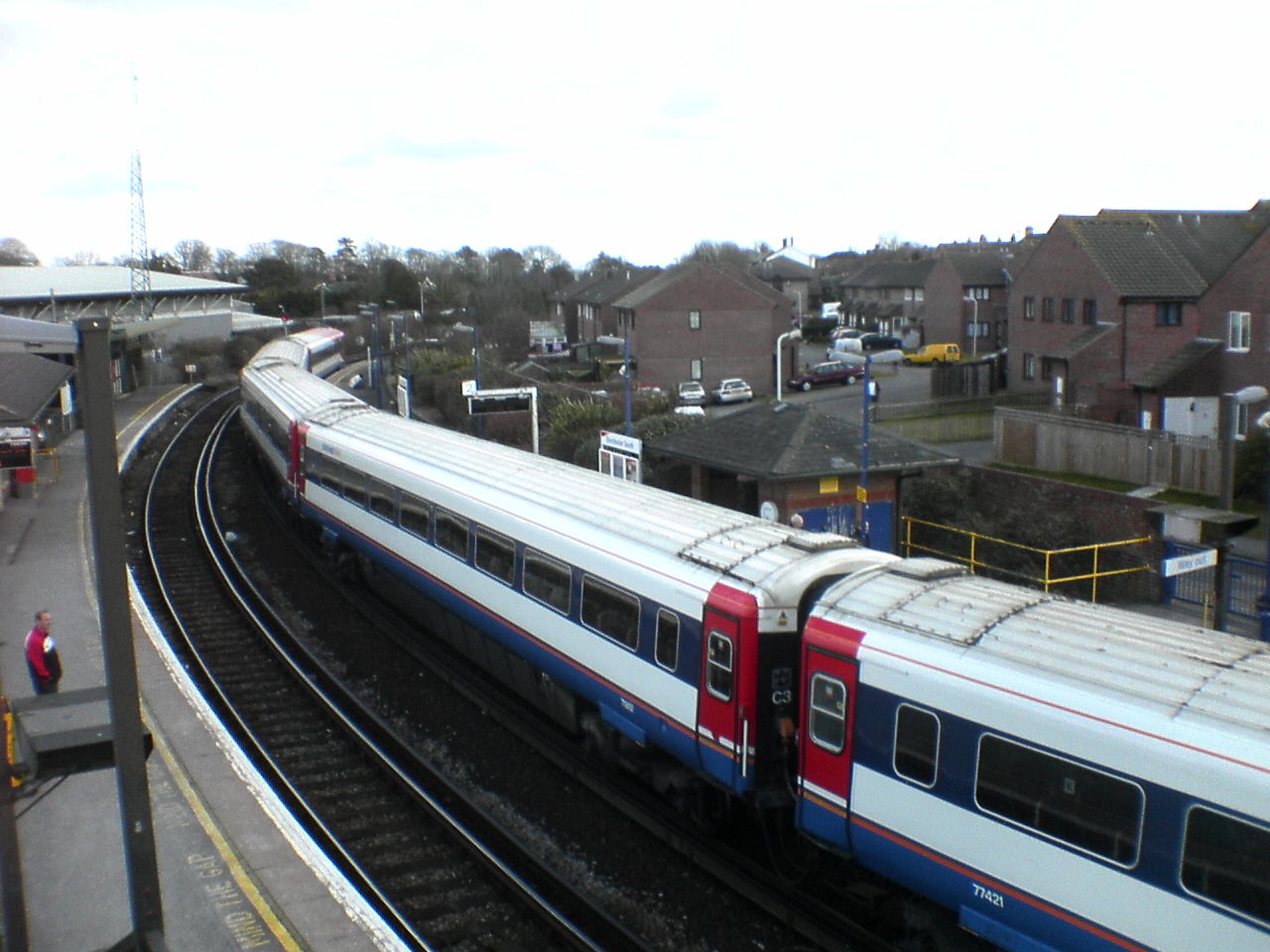 British Rail Class 442s (South West Trains) in Dorchester South Railway station.